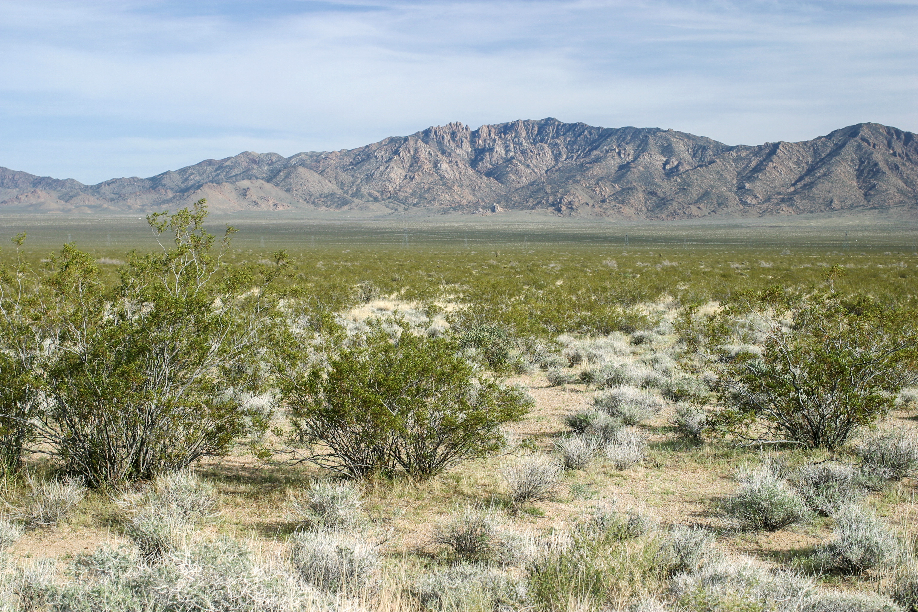 Creosote bush (Larrea tridentata) in California's Mojave desert, 2004.